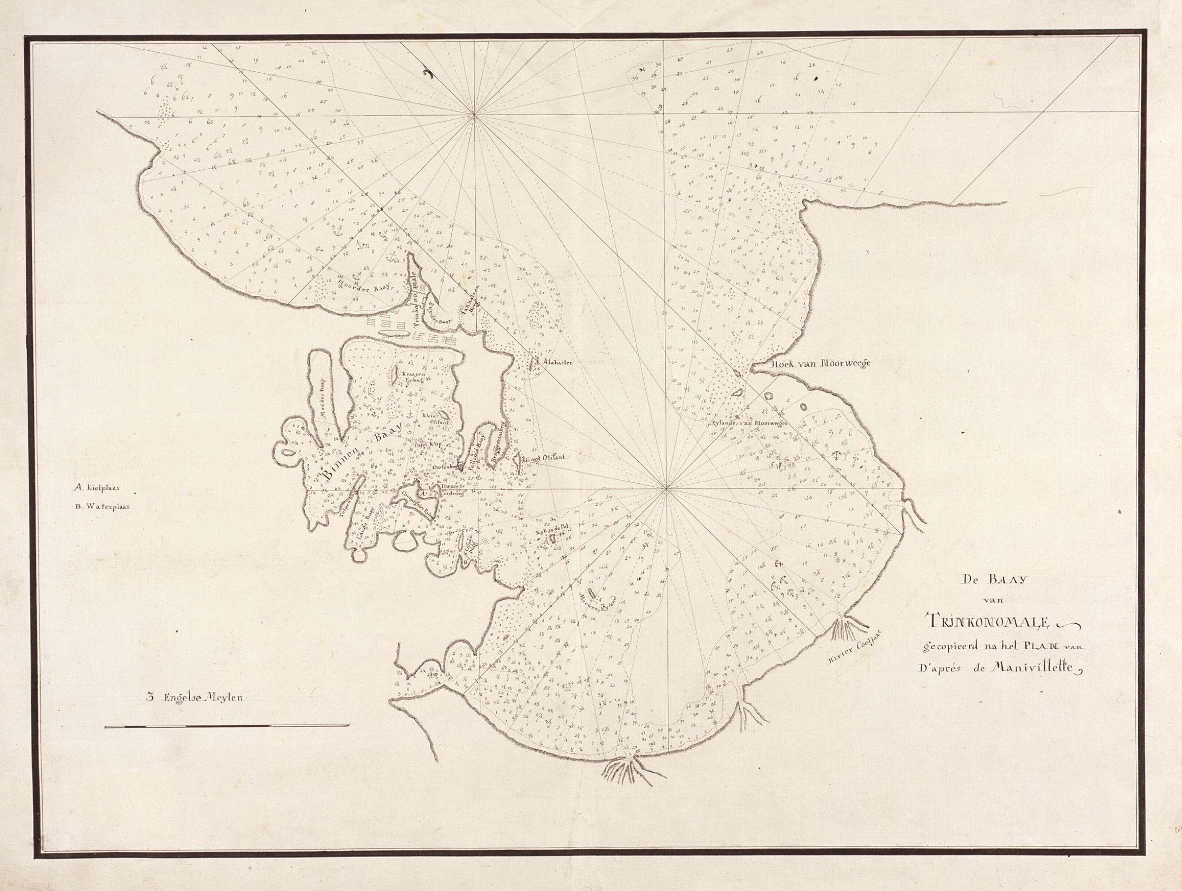 Title in the Leupe catalogue (National Archives): De Baay van Trinkonomale, gecopieerd naar het plan van d'Apres de Manivillette. Notes on reverse: No. 11 Trinconomale [marked in two corners] / 241 [in red pencil].